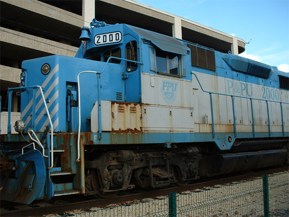 Peoria and Pekin Union Railway engine No. 2000 at Peoria, IL on October 23, 2004. Taken just south of the Murray Baker Bridge on the western side of the Illinois River. (NE Water Street at Hamilton Boulevard; Caterpillar headquarters parking deck in background.)